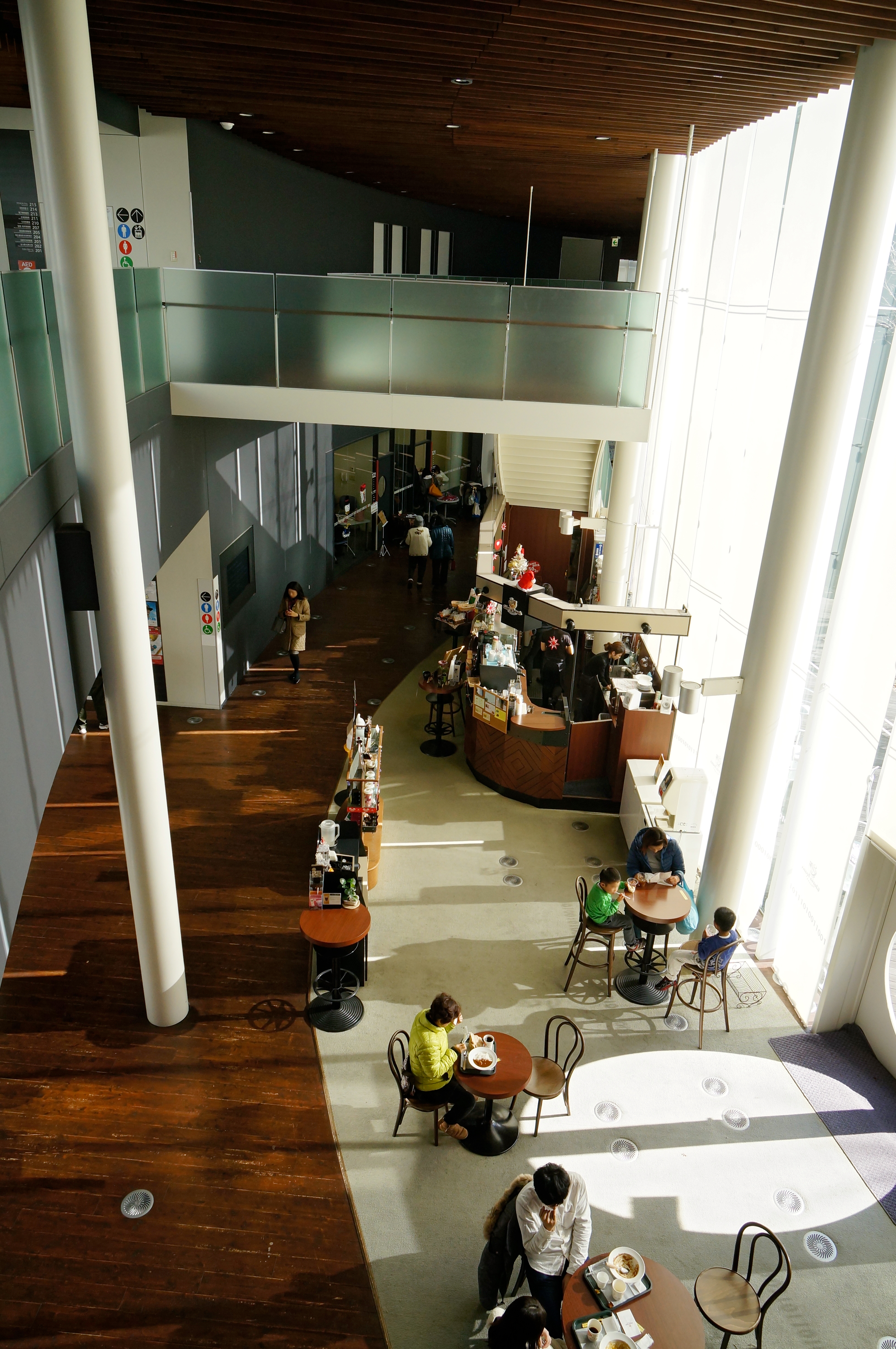 Wakayama Prefectural Information Exchange Center Big-U in Tanabe, Wakayama prefecture, Japan.